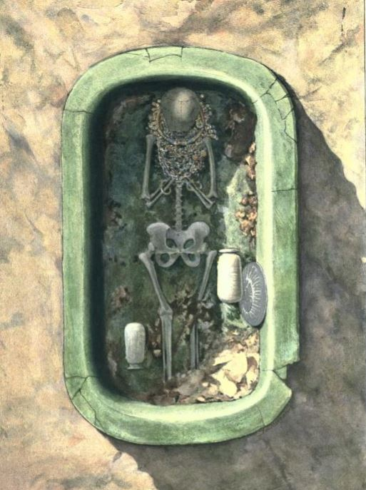 The Acropolis tomb at Susa, Persia, as published by Jacques de Morgan: Découverte d’une sépulture achéménide à Suse, in J. de Morgan et al, Recherches archéologiques: Deuxième serie, MDP 7, Paris, 1905, pl. II online